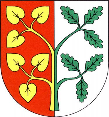 Coats of arms of Všelibice.